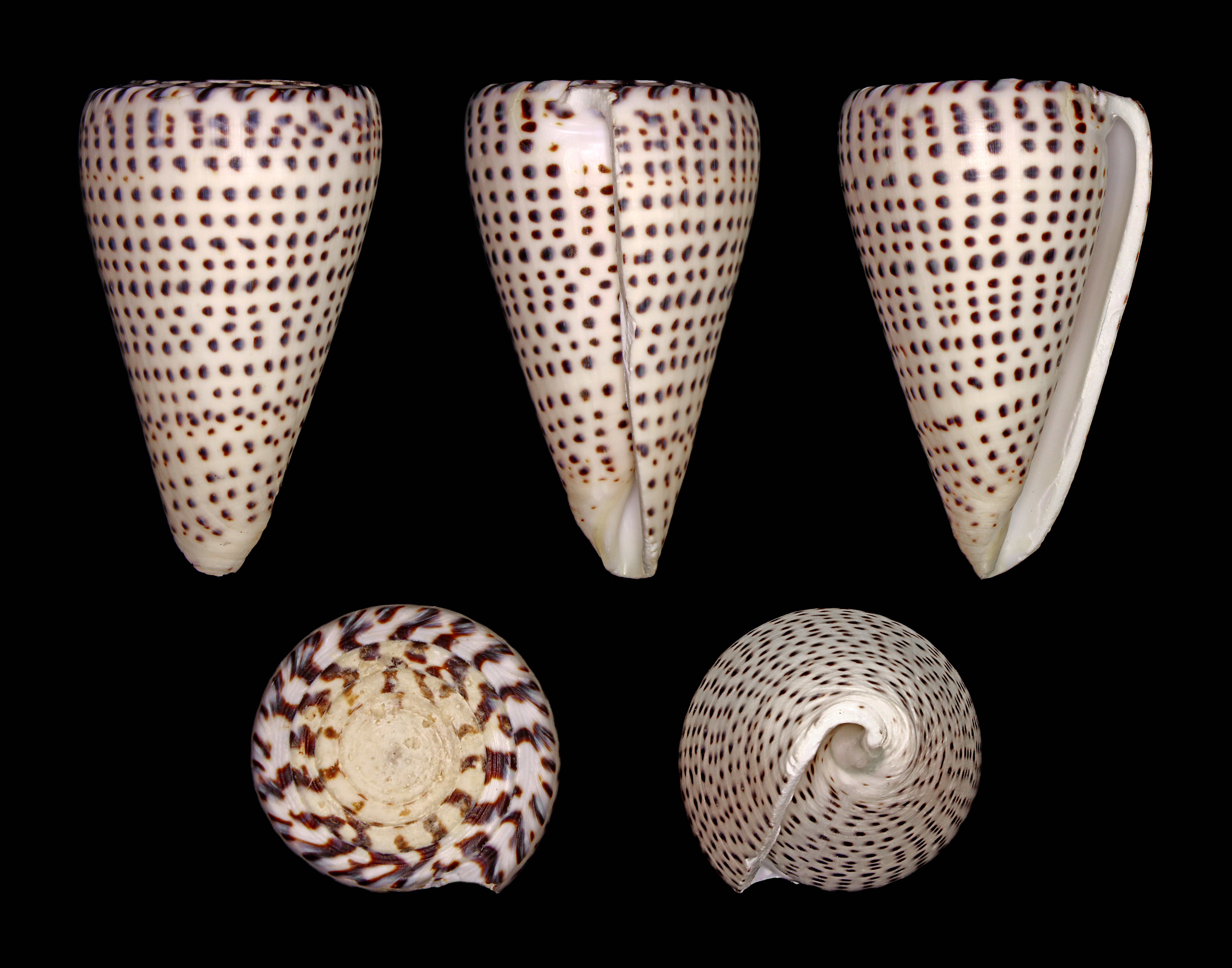 Leopard Cone; Length 8.5 cm; Originating from the Indo-Pacific; Shell of own collection, therefore not geocoded. Dorsal, lateral (right side), ventral, back, and front view.